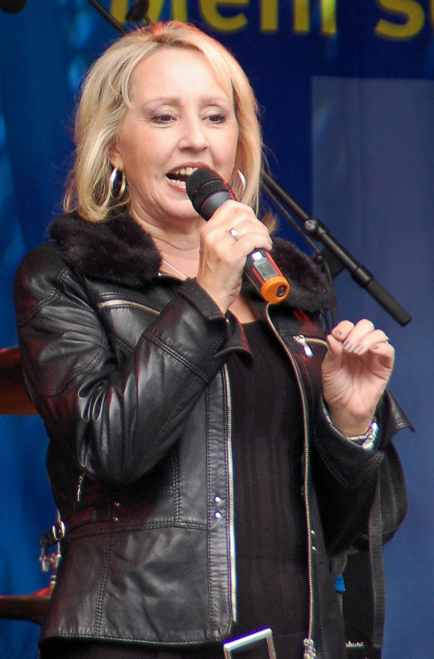 Hildegard Krekel at NRW-Tag in Siegen 2010